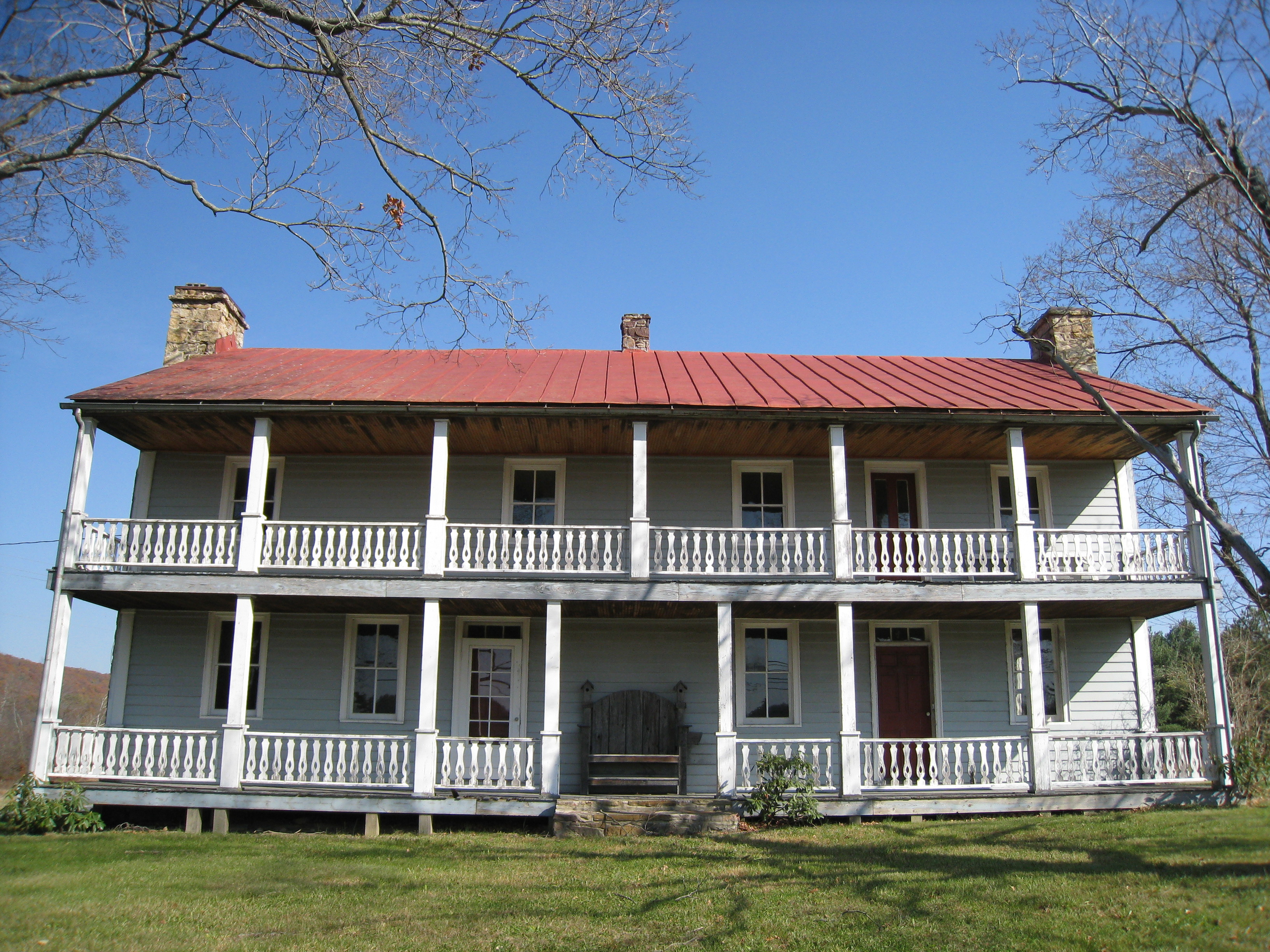 Hooks Tavern along the Northwestern Turnpike (U.S. Route 50) east of Capon Bridge, West Virginia, United States.